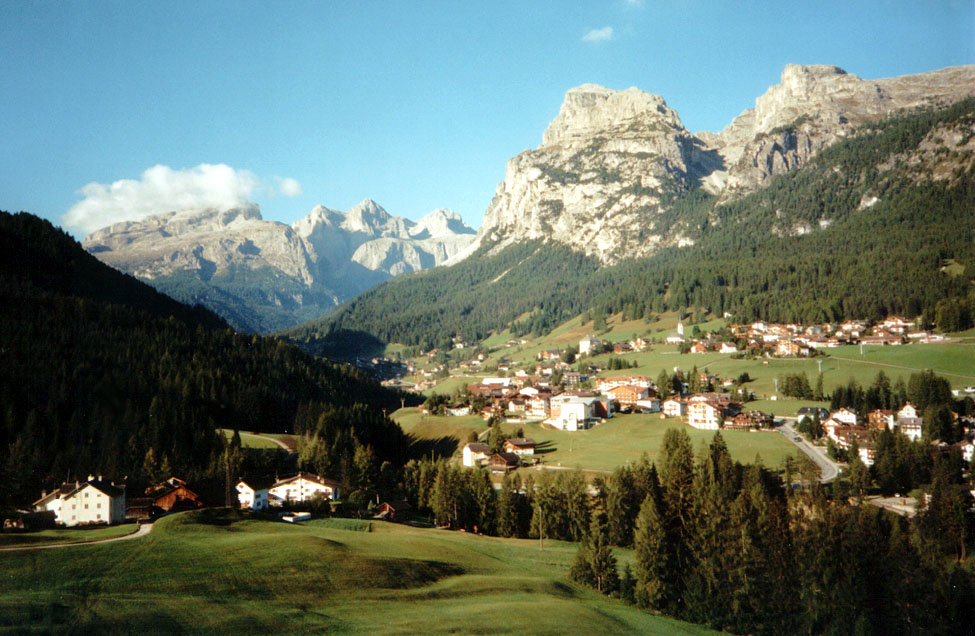 La Ila with Sella and Sassongher, Italy Foto by Hejkal, 2005-09-13